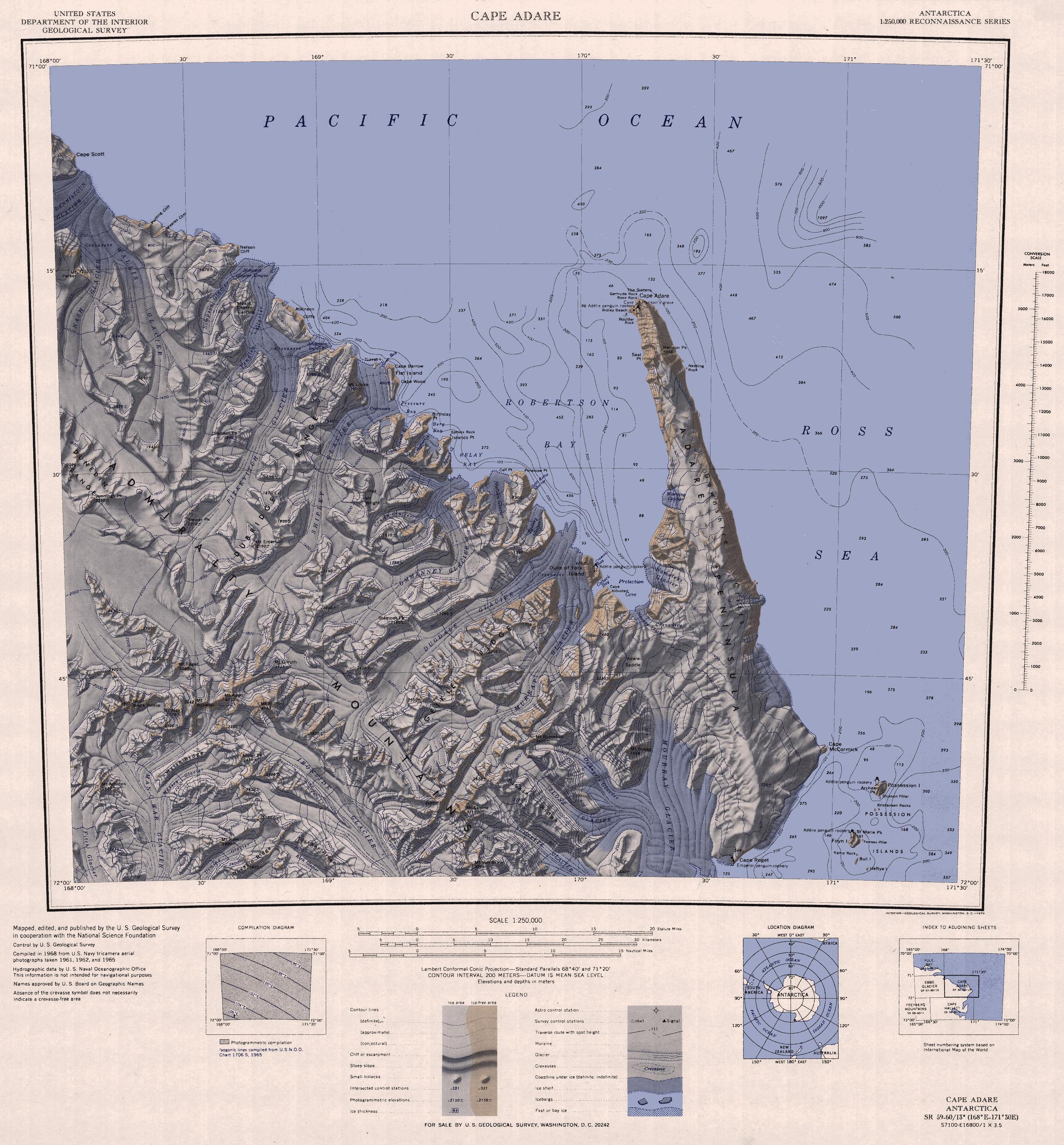 1:250,000-scale topographic reconnaissance map of the Cape Adare region in Antarctica (168°E - 171°30'E, 71°S - 72°S). Mapped, edited and published by the U.S. Geological Survey in cooperation with the National Science Foundation.